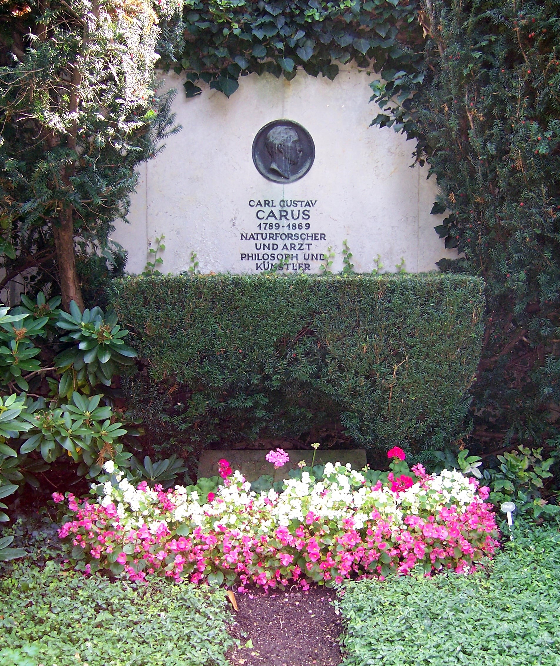 Grave of Carl Gustav Carus at the Trinitatisfriedhof in Dresden. Portrait by Ernst Rietschel